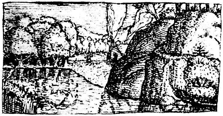 Facsimile of a pen drawing by Eric XIV of Sweden on the titlepage of a copy of Strabons De situ orbis